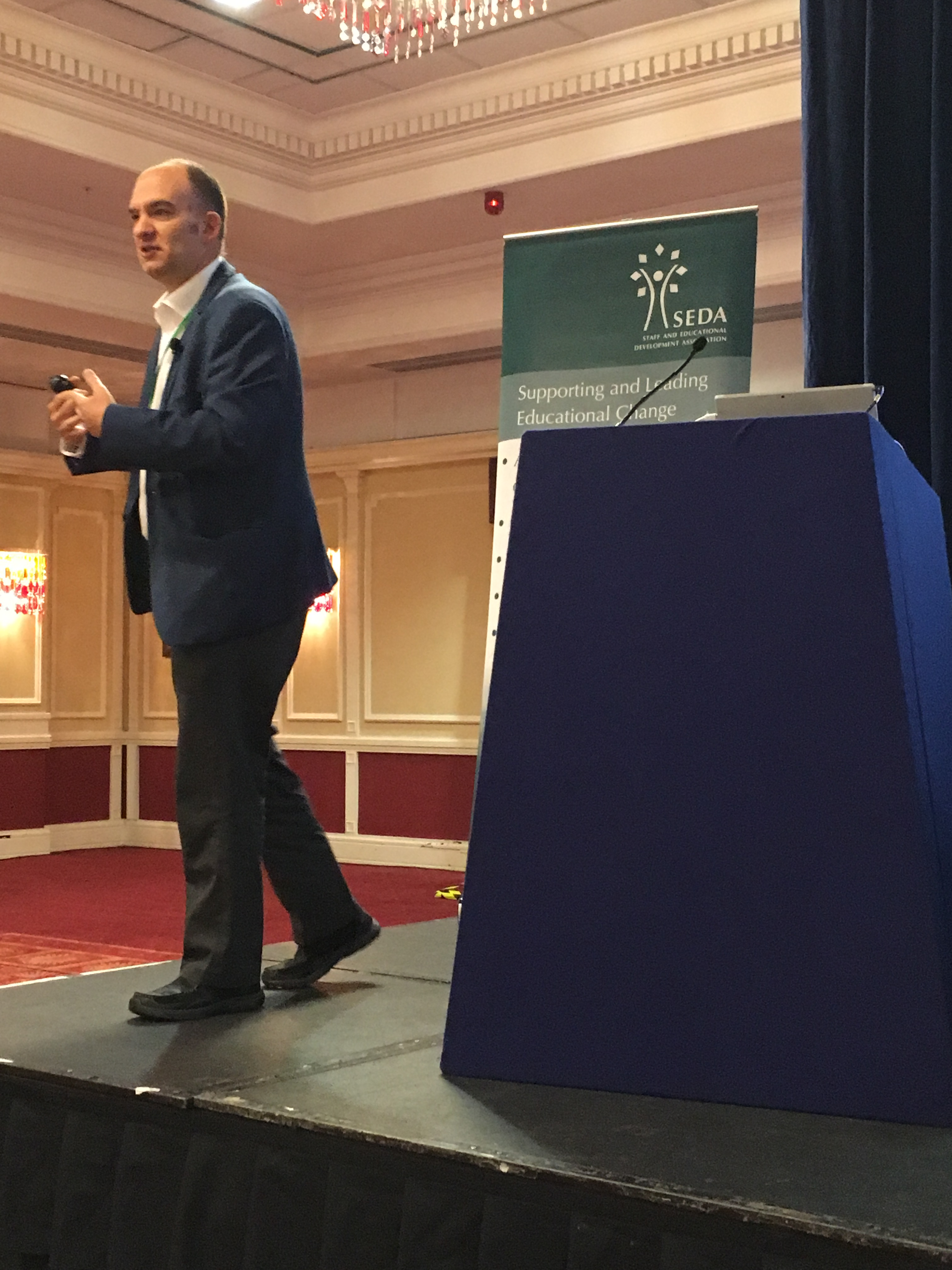 Professor Ale Armellini